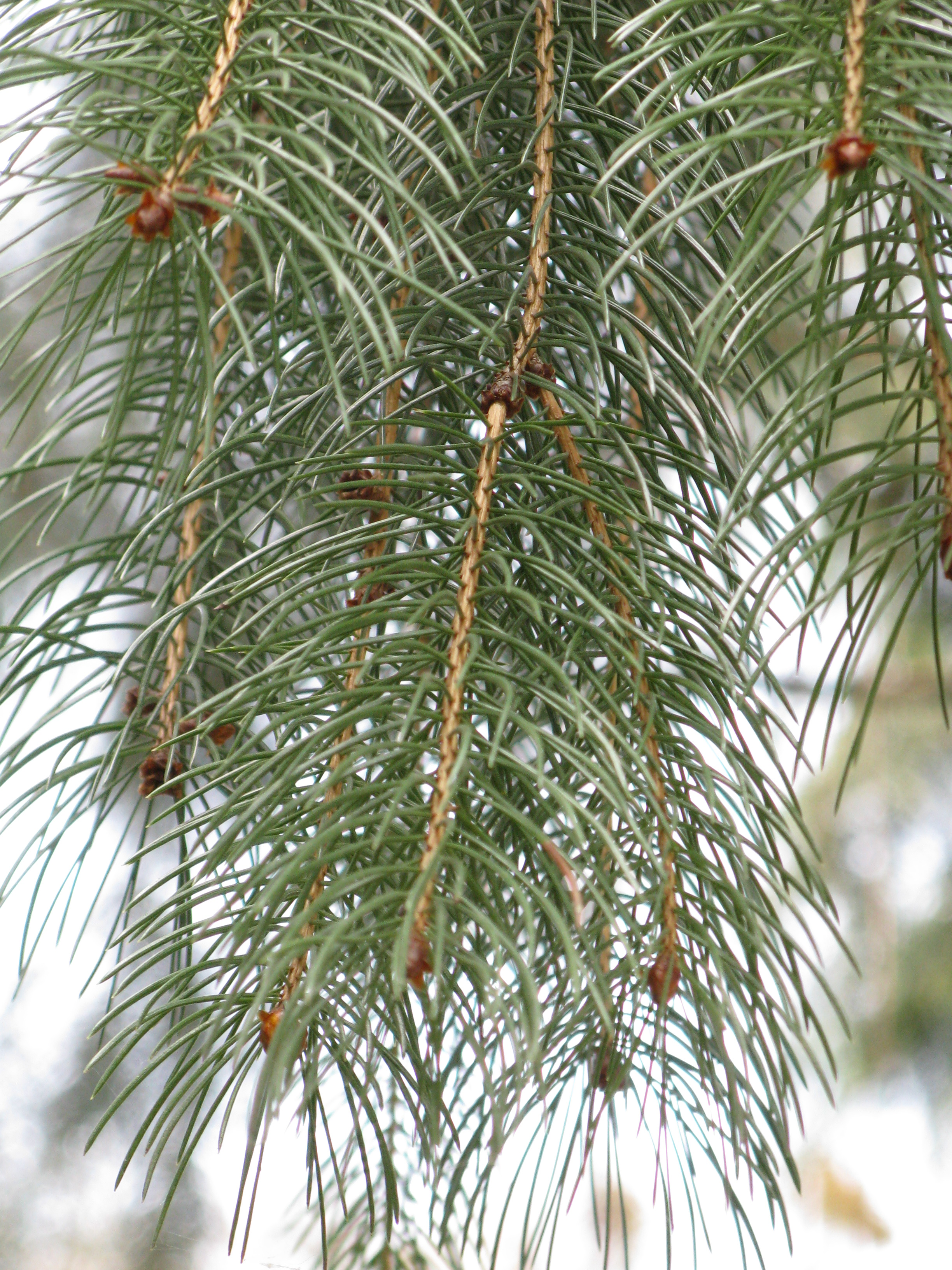 Picea smithiana